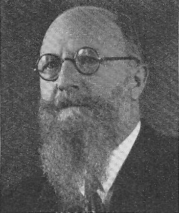 Thorvald Stauning.